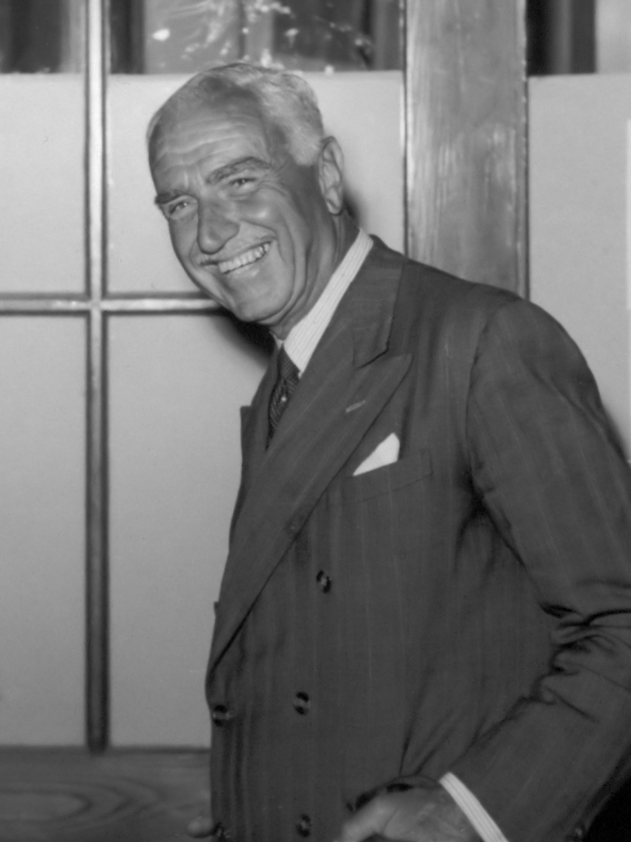 Visser diversen. Drie heren. Philips Christiaan Visser in het midden 1945/01/01